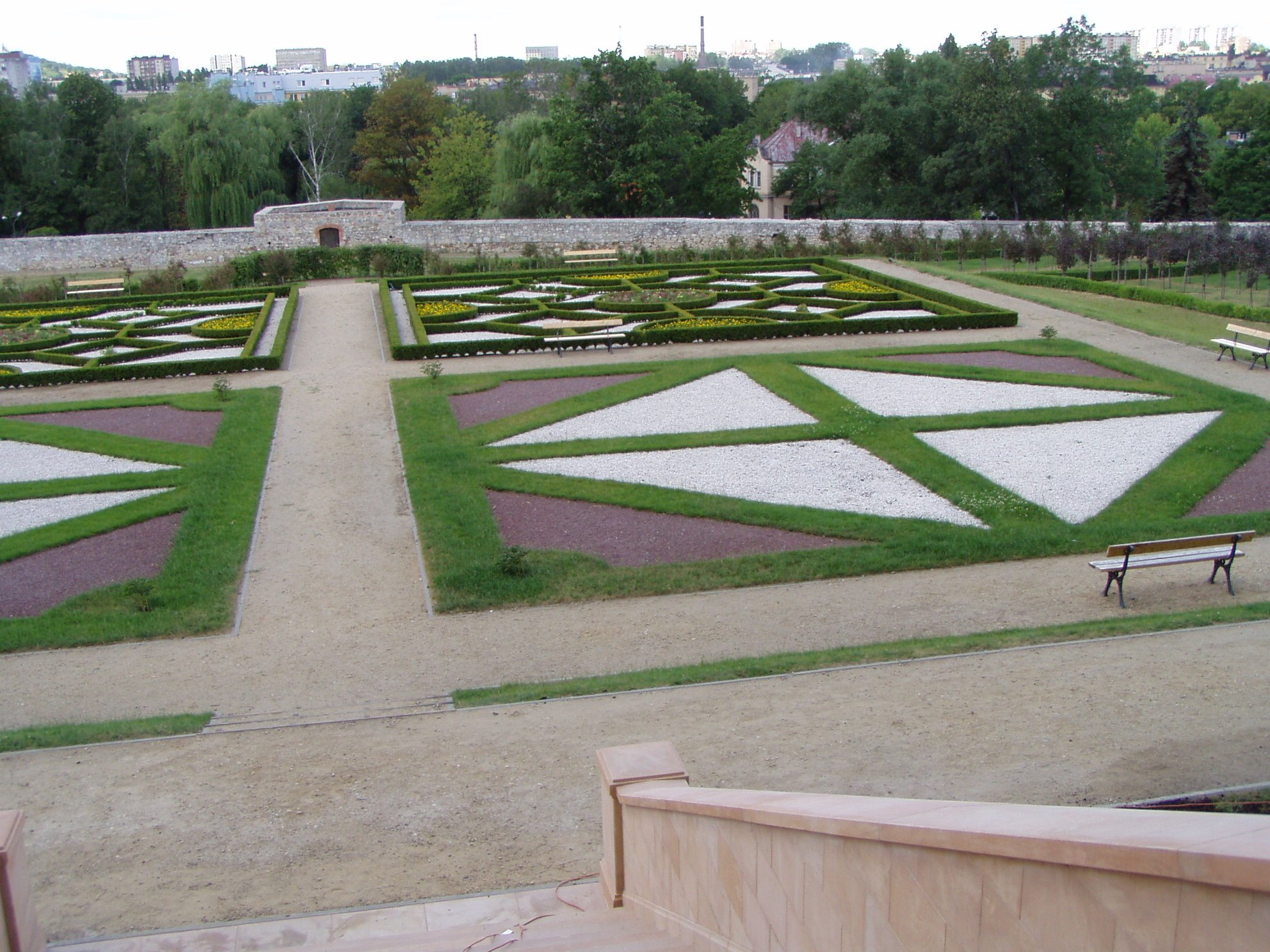 The terraced Italian Garden, at the Palace of the Kraków Bishops in Kielce, Poland